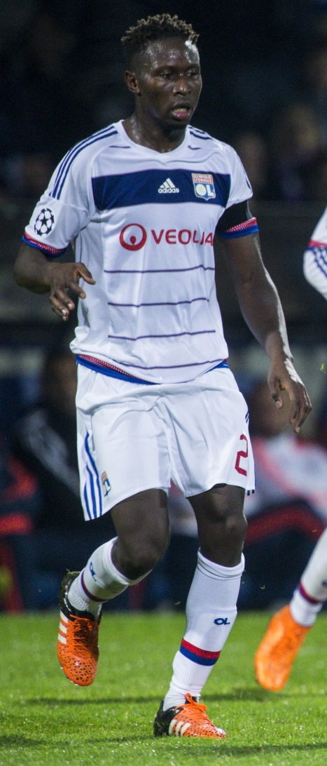 Mapou Yanga-Mbiwa